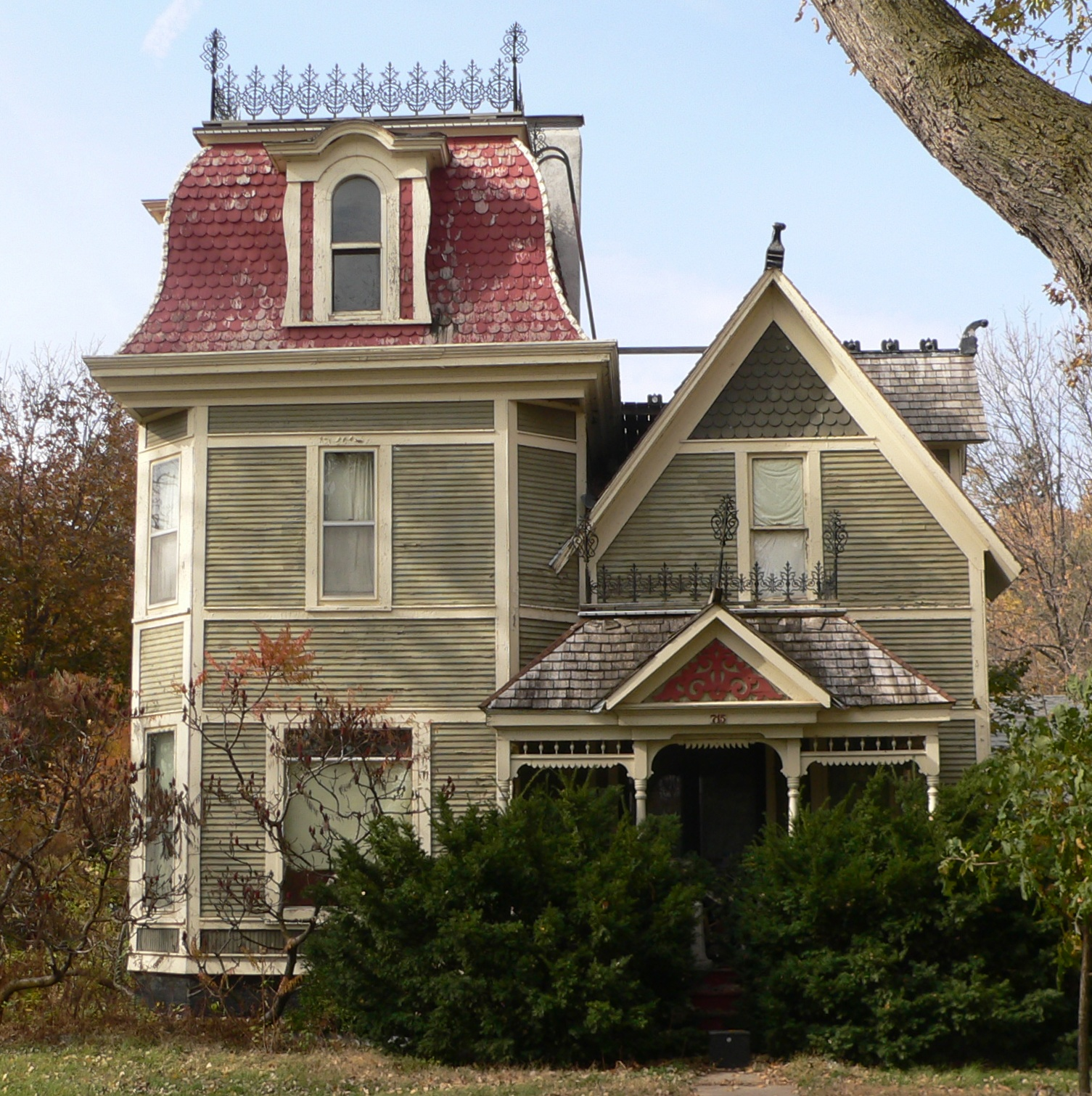 Chauncey S. Taylor House, located at 715 N. 4th Street in David City, Nebraska; seen from the east.